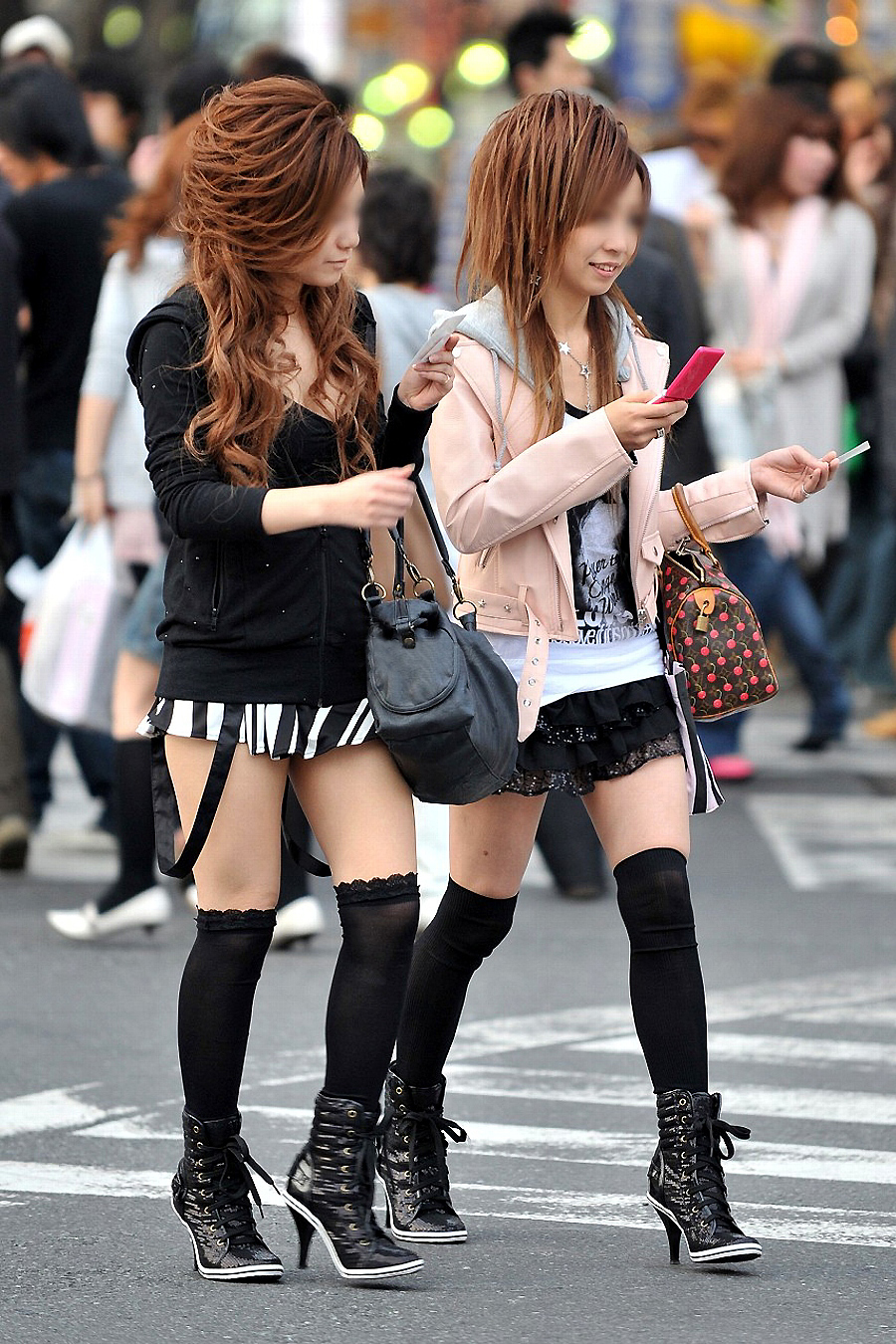 Two women walk on street in Taipei, Taiwan.